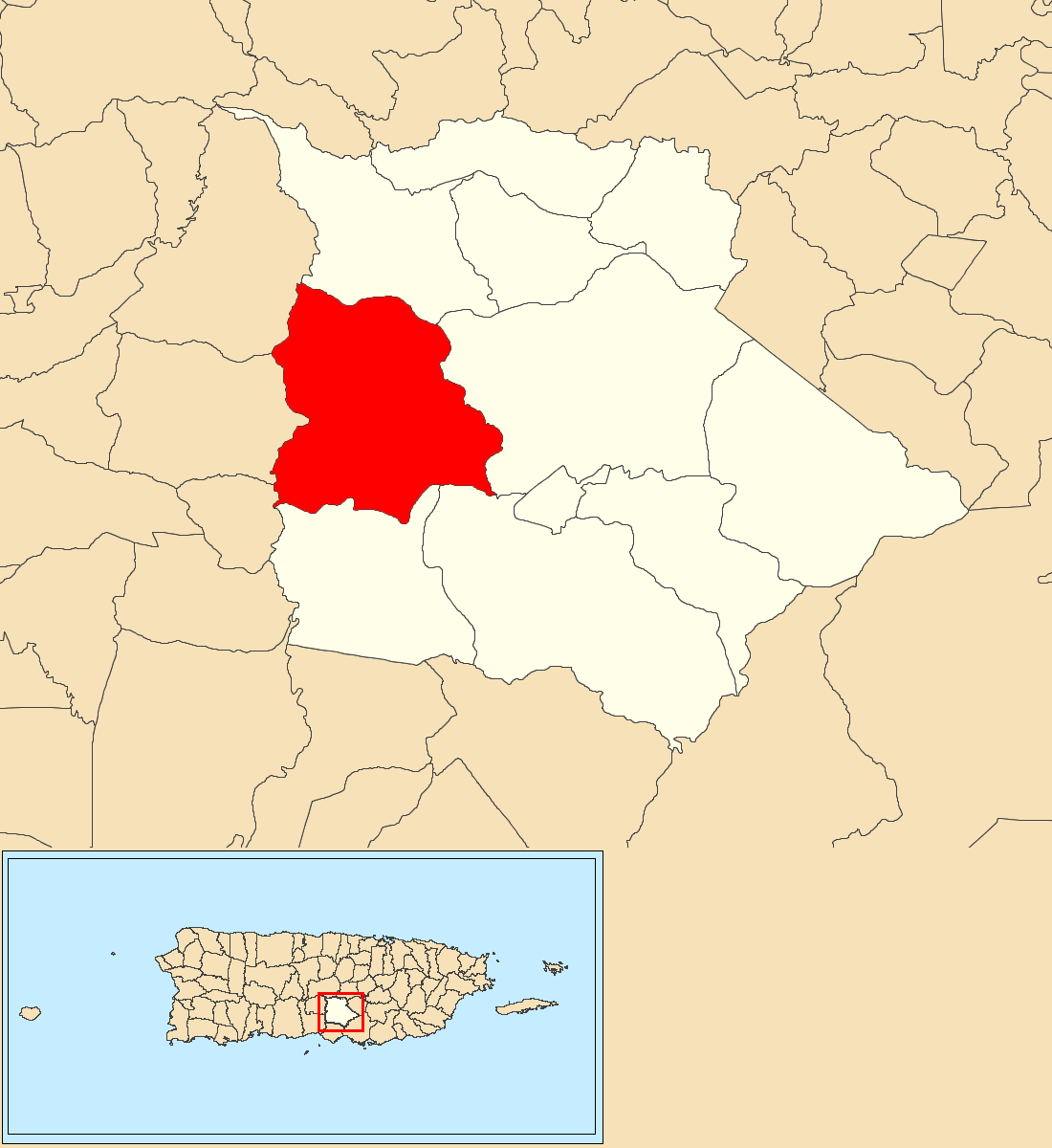 Santa Catalina, Coamo, Puerto Rico, locator map